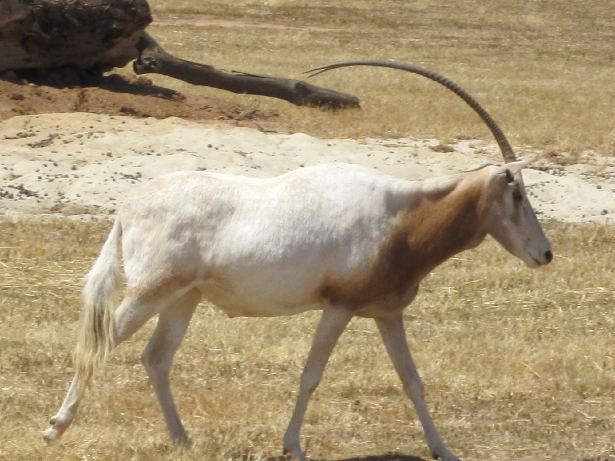 Photo of Scimitar Oryx, I took at the Werribee Open Range Zoo in Victoria, Australia. Photo was taken on 19th November 2009.